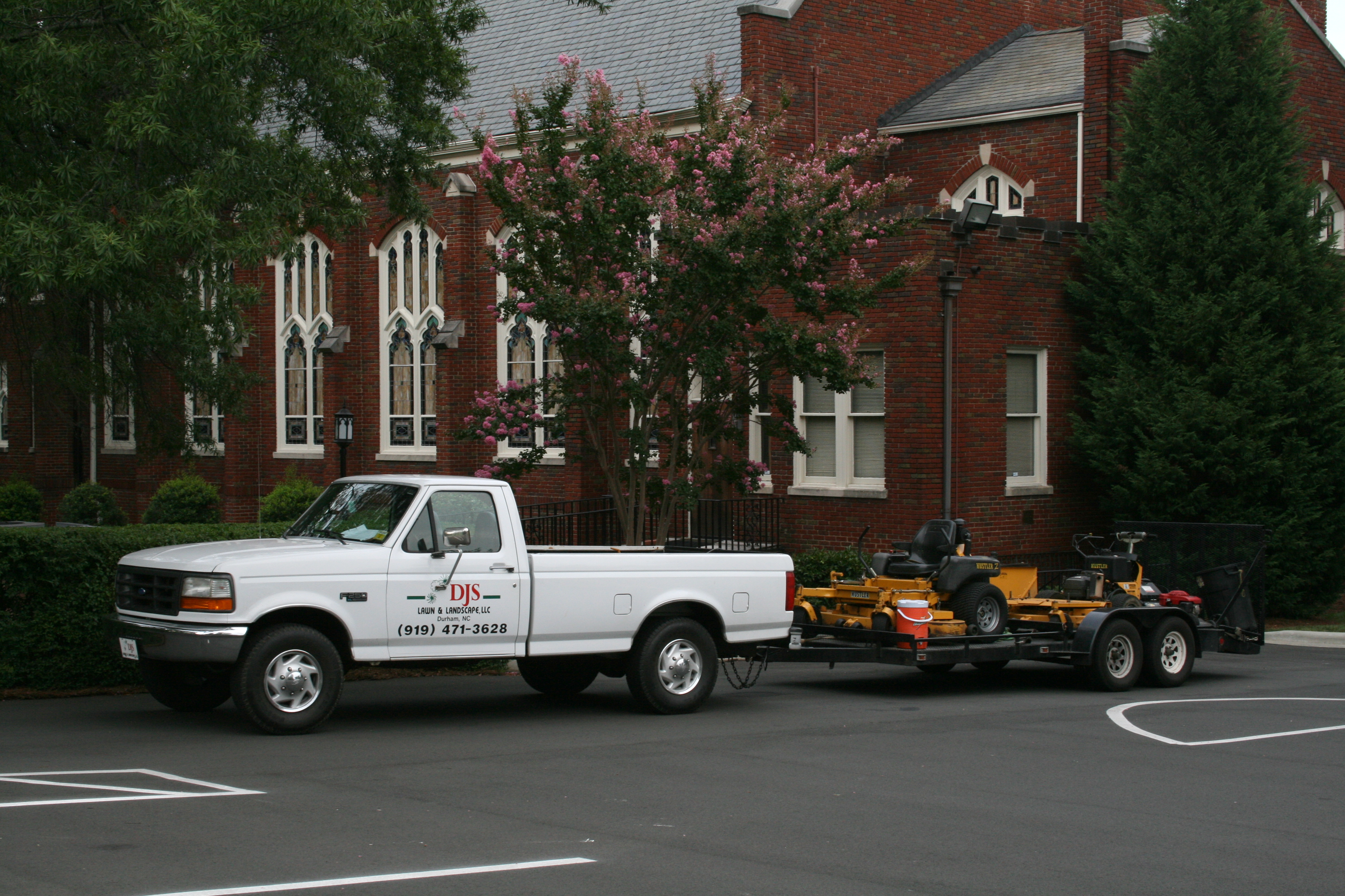 DJS Lawn & Landscape Ford F-250 XL pickup truck with lawn care equipment (riding mowers) on a trailer bed parked at Trinity Presbyterian Church in Durham, North Carolina.